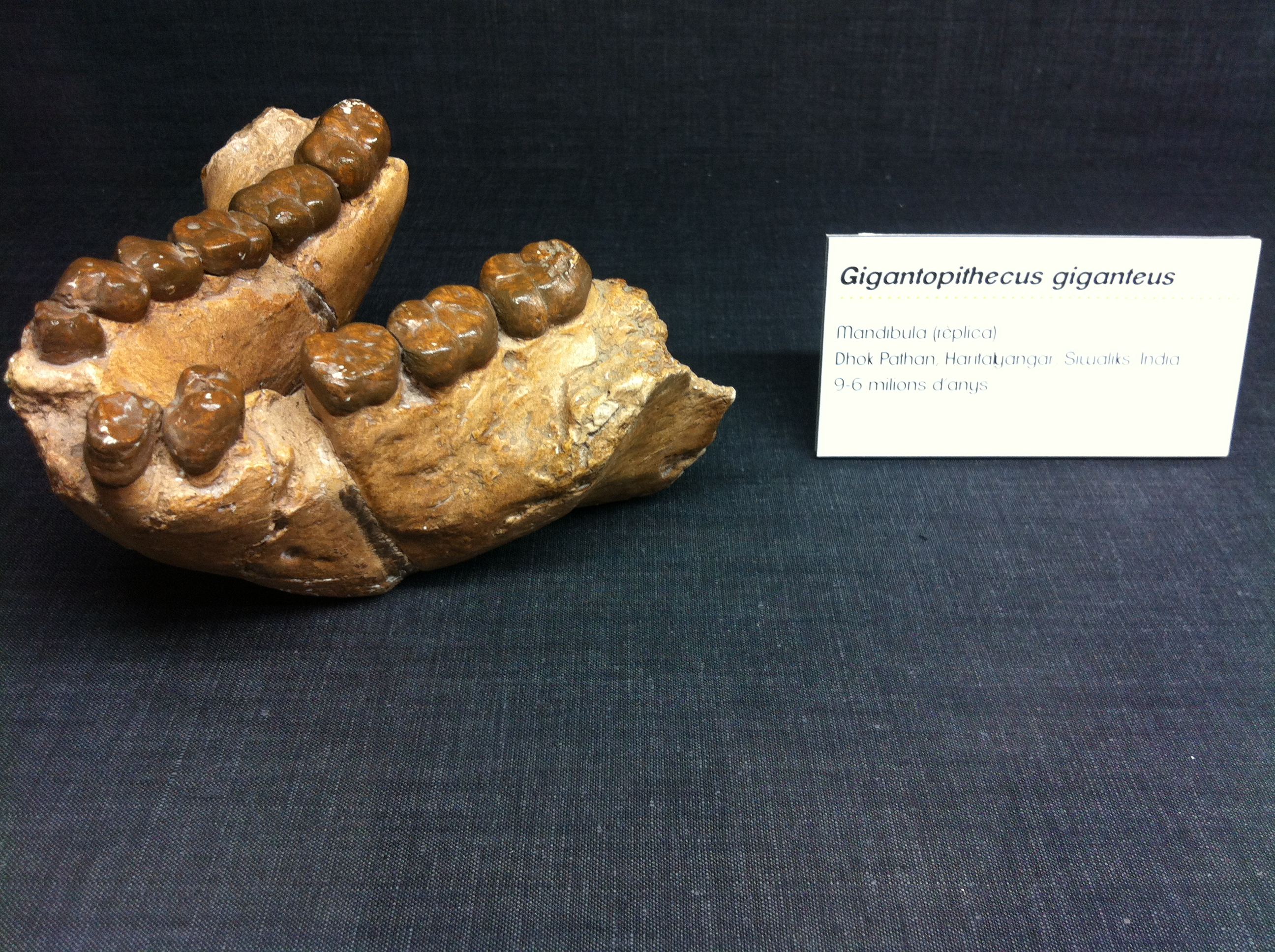 Gairebé humans (in Catalan): Almost humans exhibit at Institut Català de Paleontologia Miquel Crusafont, in Sabadell (Catalonia) 2012-2013